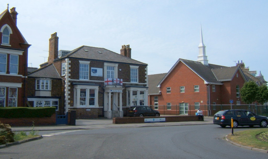 Medina House, Station Avenue, Bridlington, East Riding of Yorkshire, England.